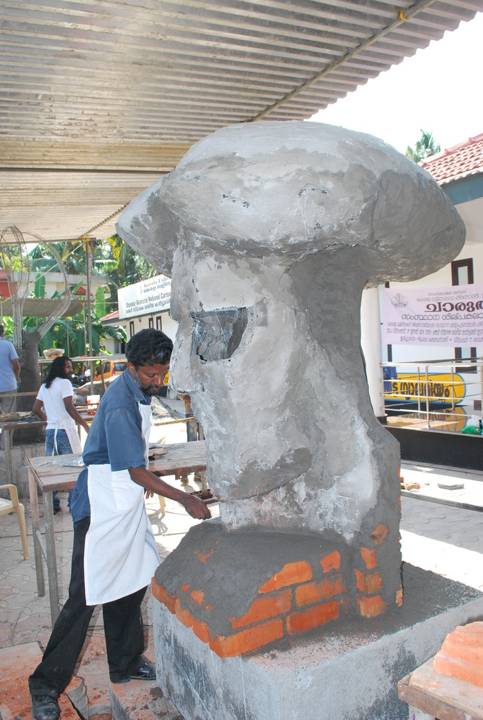 Sculptor Rajesh at at Kerala Lalitha kala academis sculptor camp at Kayamkulam, Dec 2014